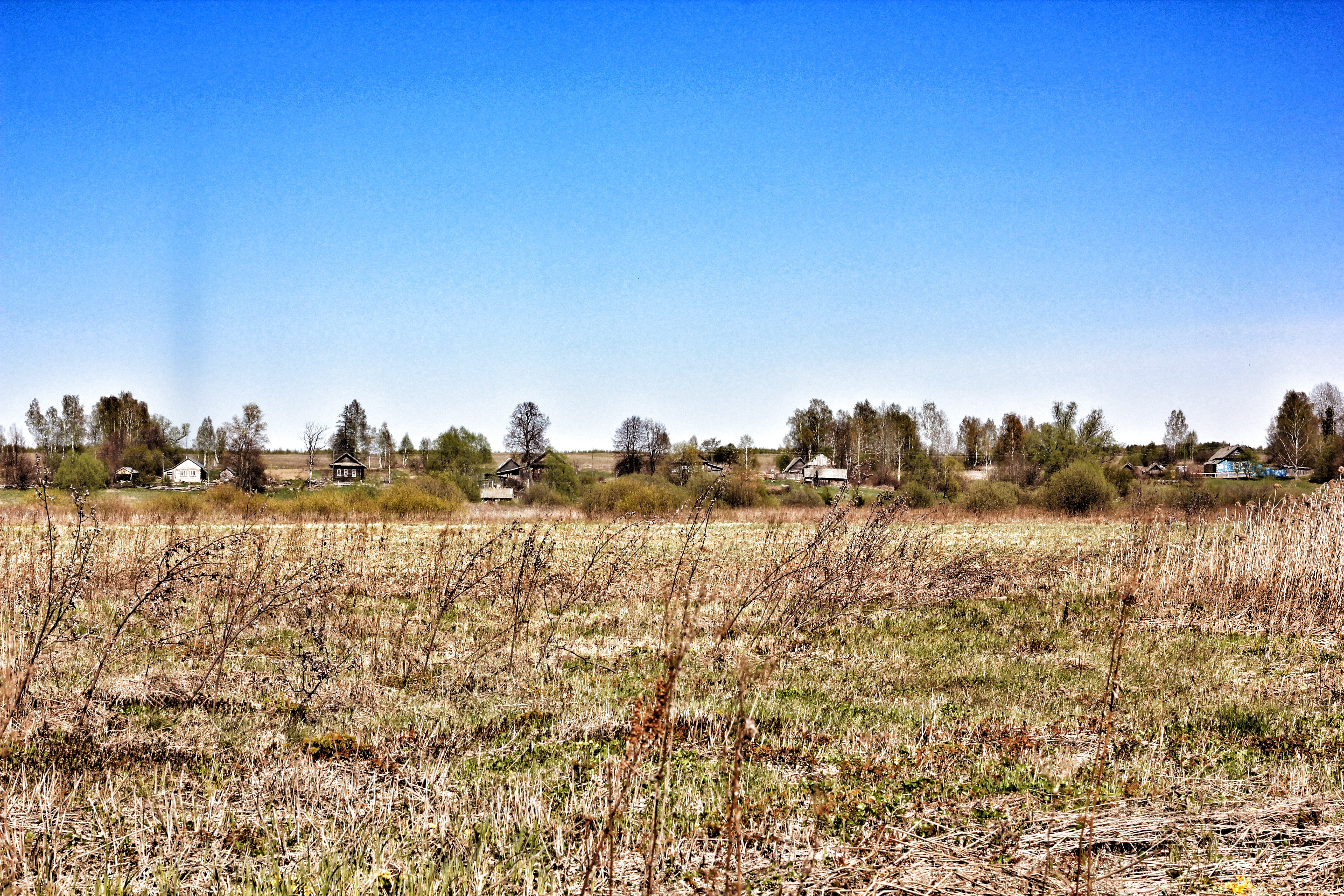 A place nearby Paybulatovskoye lake